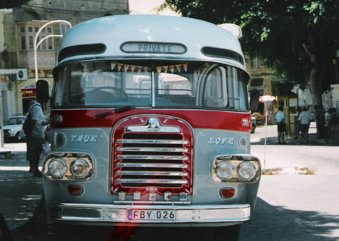 Own Photo, Gozo (Malta), Mai 2001, source: ERWEH